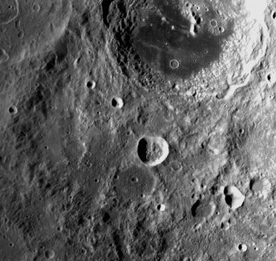 LROC WAC mosaic image (No.s M103382018ME and M118410186ME).